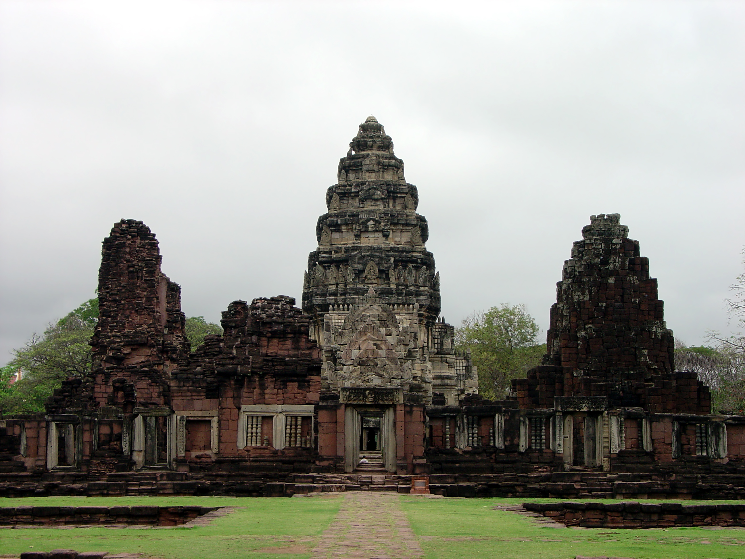 In this view from the south the tower of the main sanctuary, flanked by two secondary towers in semi-ruined condition, rises just behind the gopura of the first (inner) enclosure.